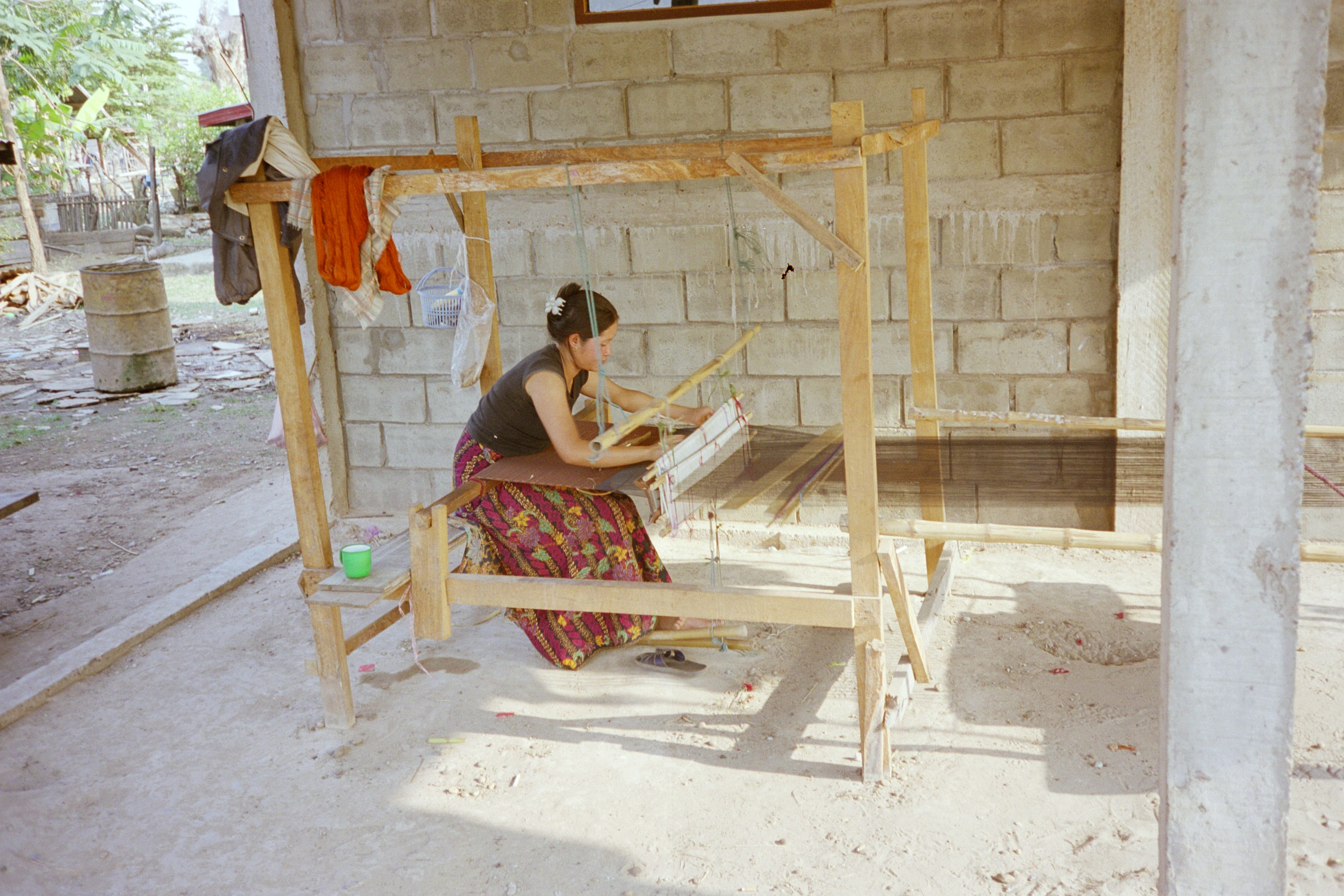 A woman practicing her craft in one of the many 'weaving-villages' in the south of Laos, this one located outside of Pakxe.